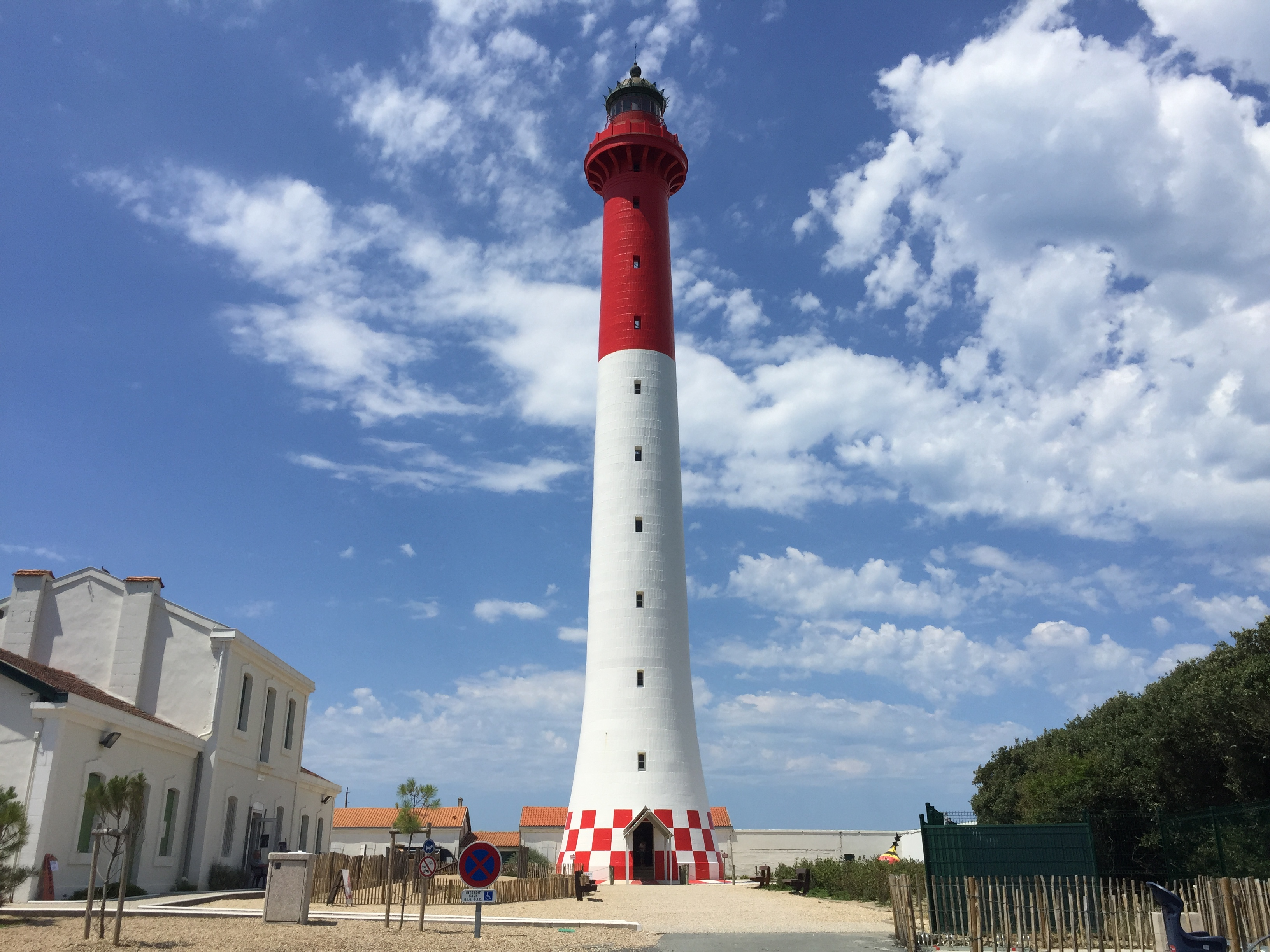 Lighthouse of La Coubre (2018)